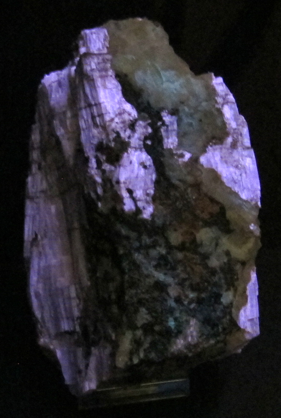 Museo di storia naturale (Florence), Mineralogy section: Fluorescent Agrellite